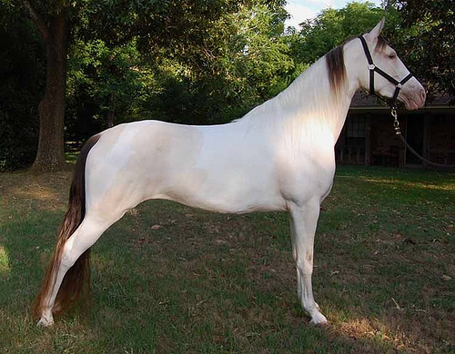 Amber champagne single-cream dilute tobiano horse. (E_ A_ CH_ CRcr TO_)